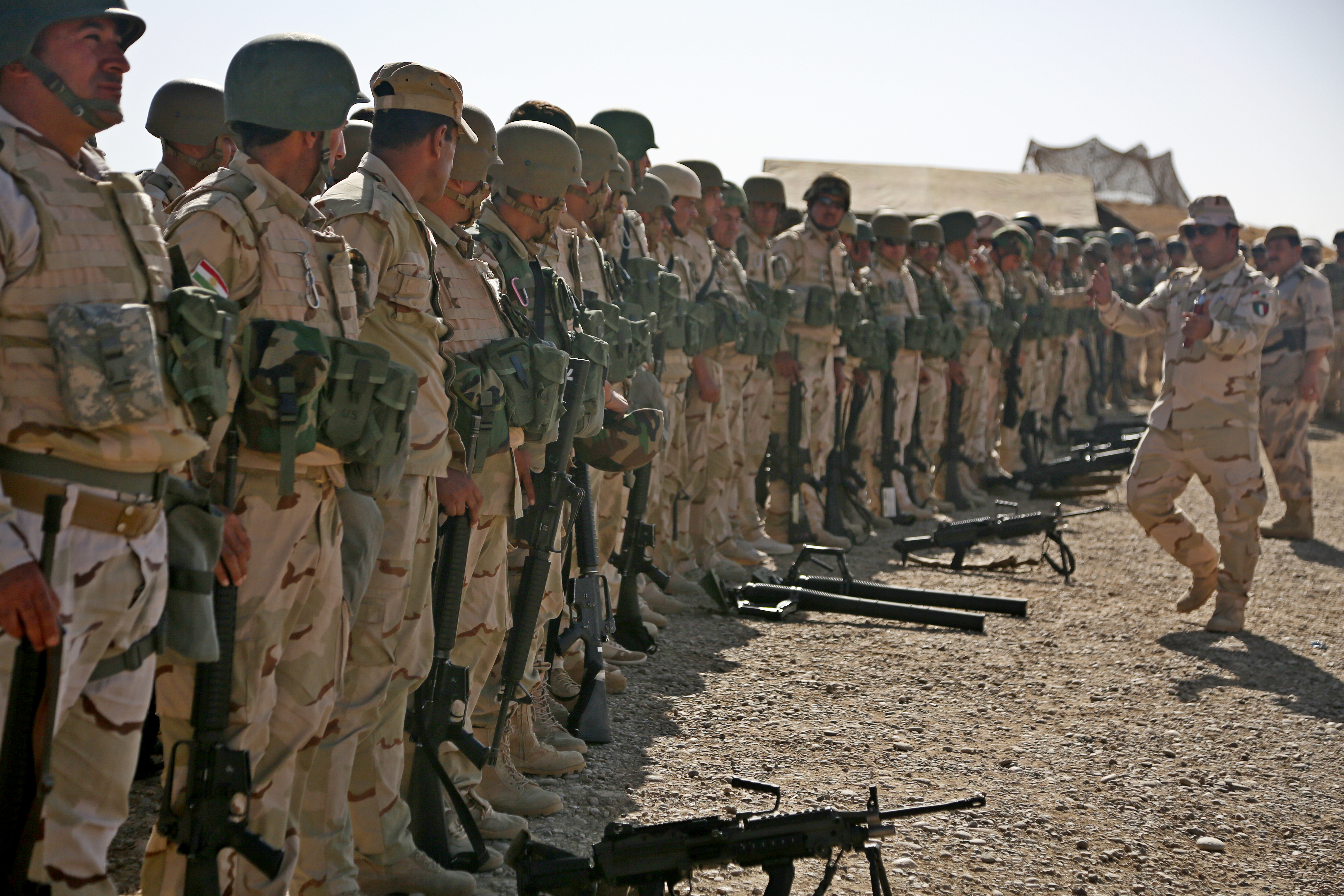 Peshmerga soldiers prepare to conduct a combined arms live-fire exercise near Erbil, Iraq, Oct. 11, 2016. Successful completion of CALFEX validates Peshmerga soldiers’ ability to strategically plan and tactically maneuver in a realistic combat environment. This training is part of the Combined Joint Task Force – Operation Inherent Resolve building partner capacity mission to increase the security capacity of the Peshmerga forces fighting the Islamic State of Iraq and the Levant. (U.S. Army photo by Sgt. Lisa Soy)